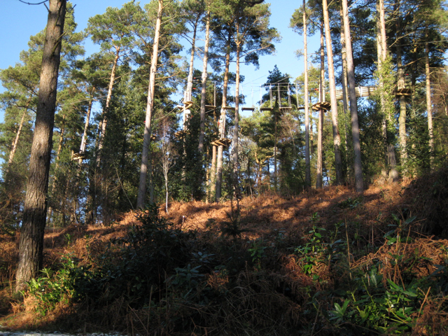 Treetop obstacle course, Haldon Forest Park One of three on Buller's Hill. Described by 'Go Ape!' as "High wire forest adventure" You may want to turn the volume down before you link to their site.